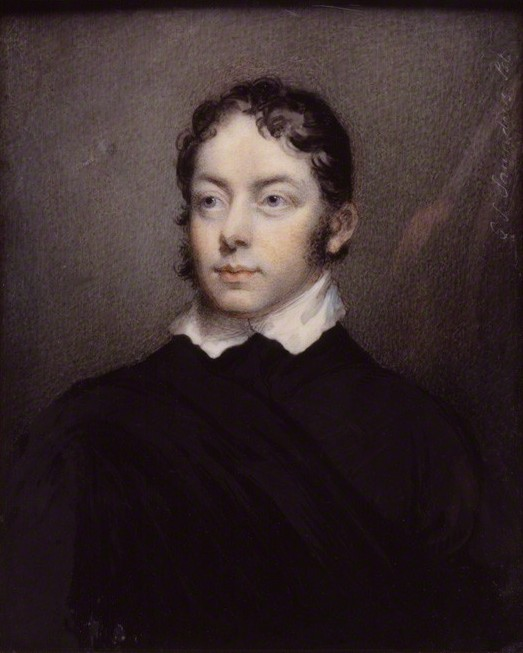 Matthew Gregory Lewis by George Lethbridge Saunders, after Unknown artist watercolour on ivory, (circa 1800) 4 1/2 in. x 3 5/8 in. (114 mm x 92 mm) Given by Bernard Falk, 1927